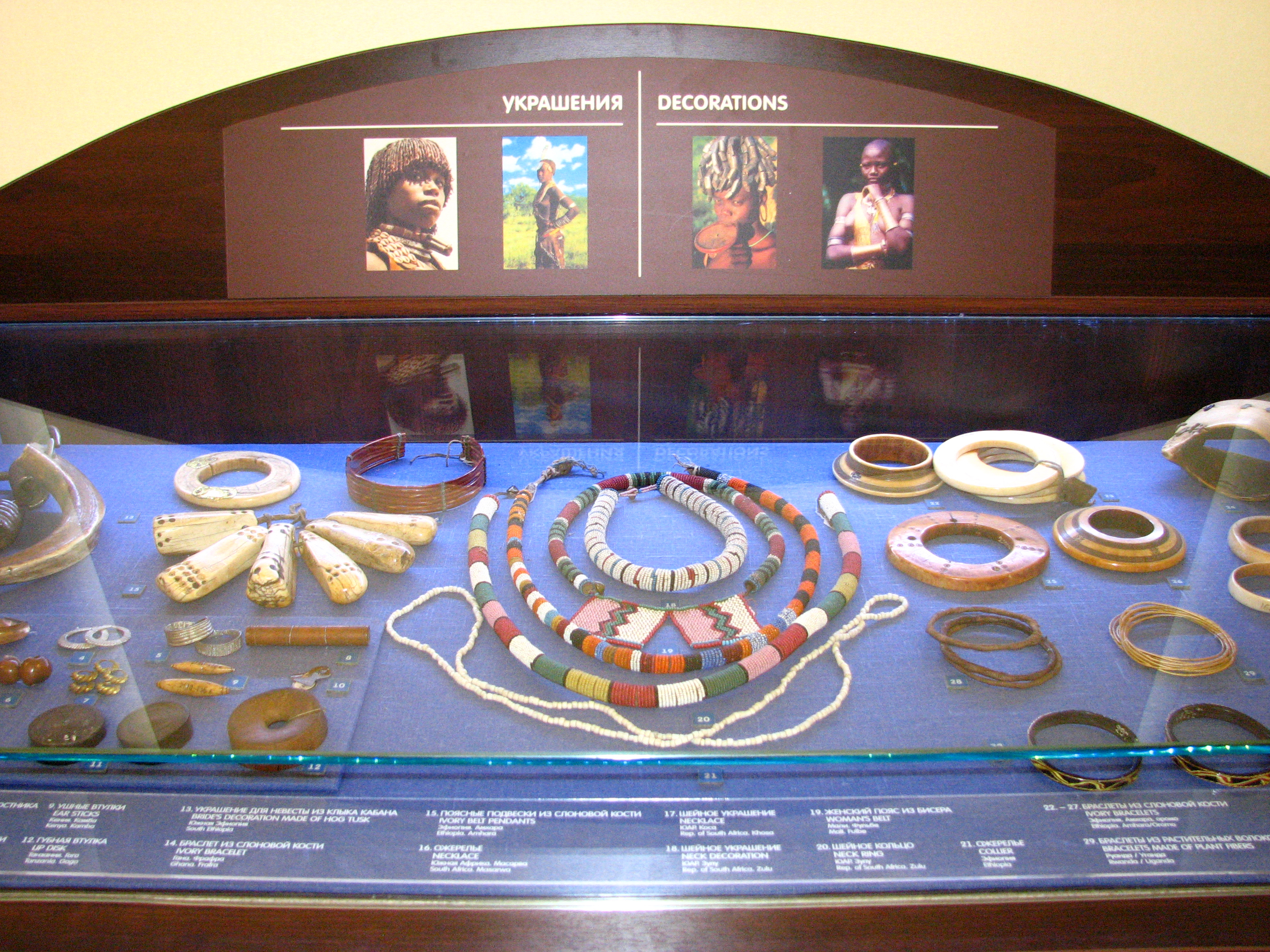 Saint Petersburg. Kunstkamera. Hall of Africa. Female decorations (Kenya, Tanzania, Ethiopia, Ghana, South Africa, Mali, etc.).